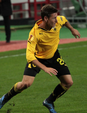 Nathan Burns (2011-10-20)